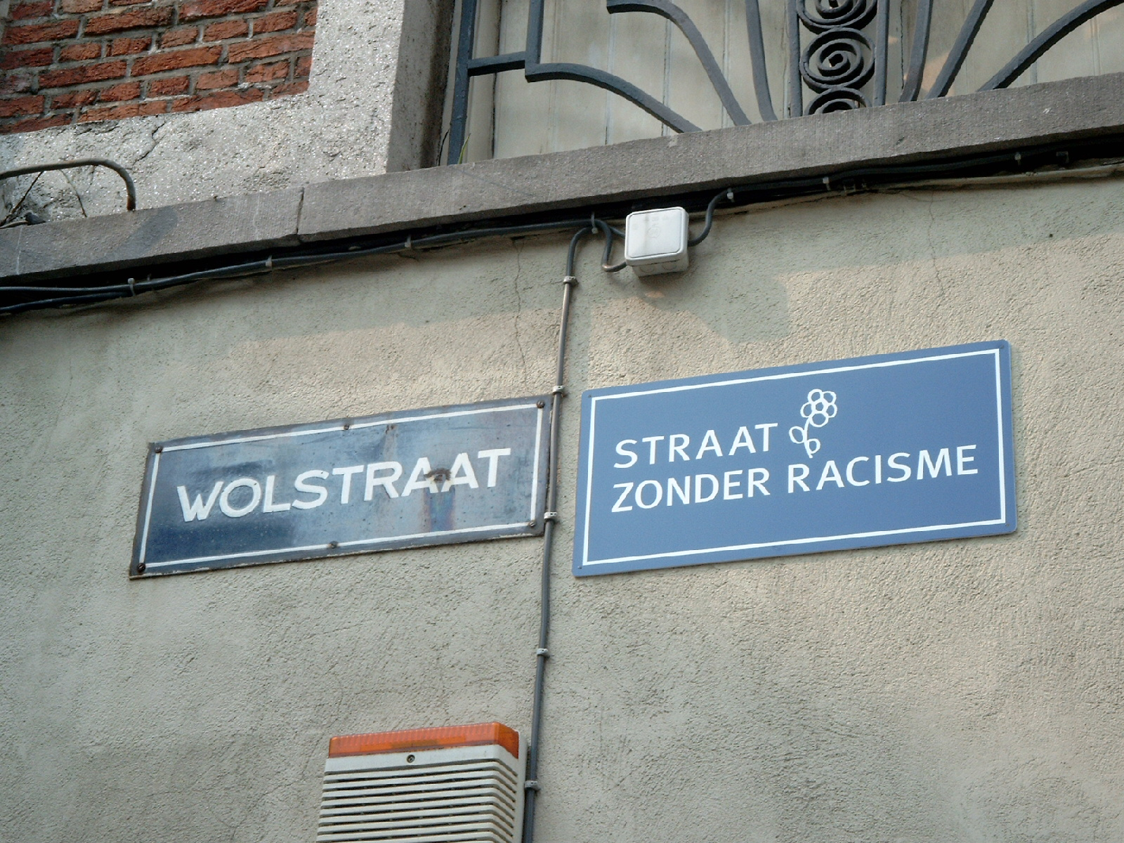 "Straat zonder racisme" (Street without racism) sign